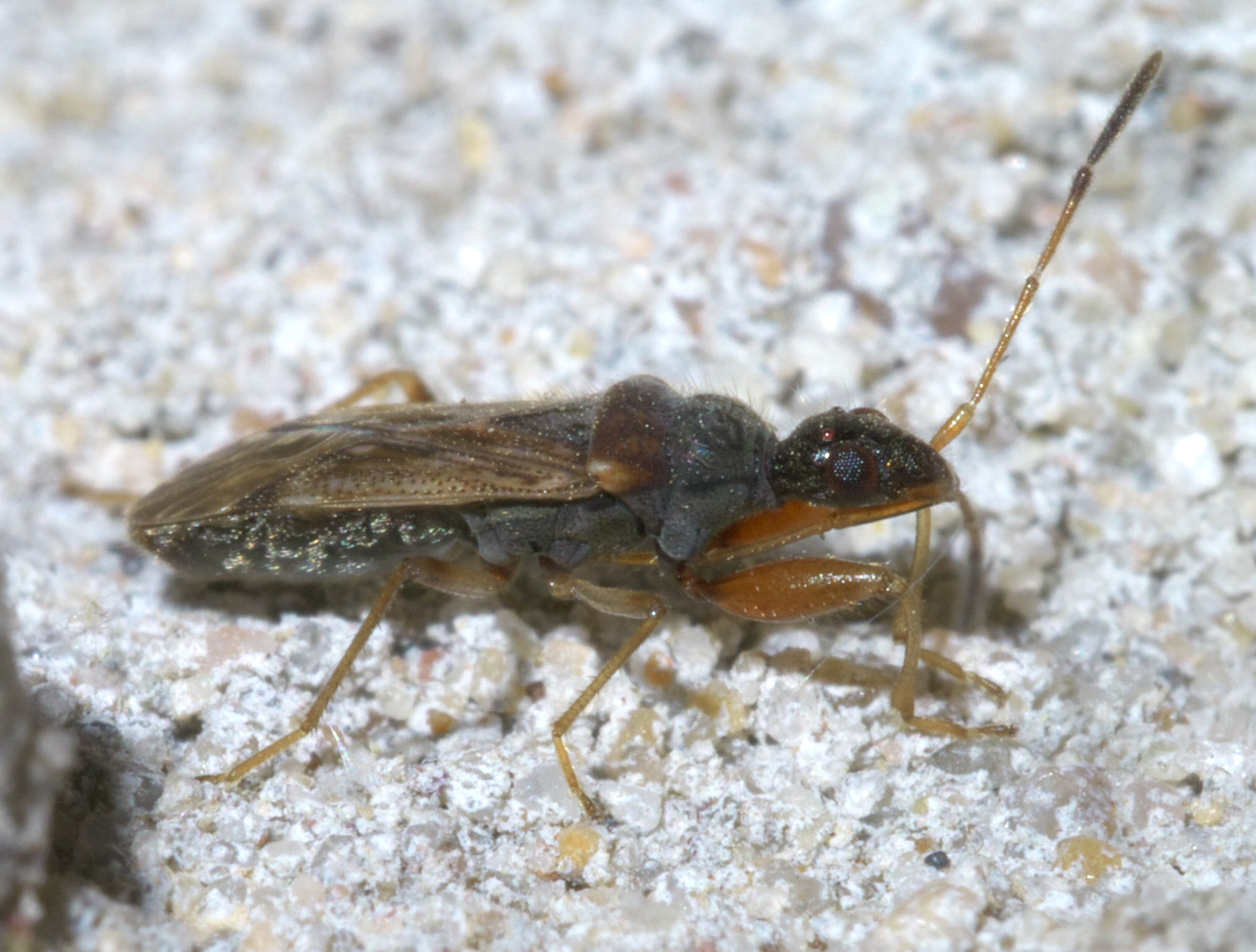 Heraeus plebejus, Family: Dirt-colored Seed Bugs, Size: 5 mm, ID Confidence: 88